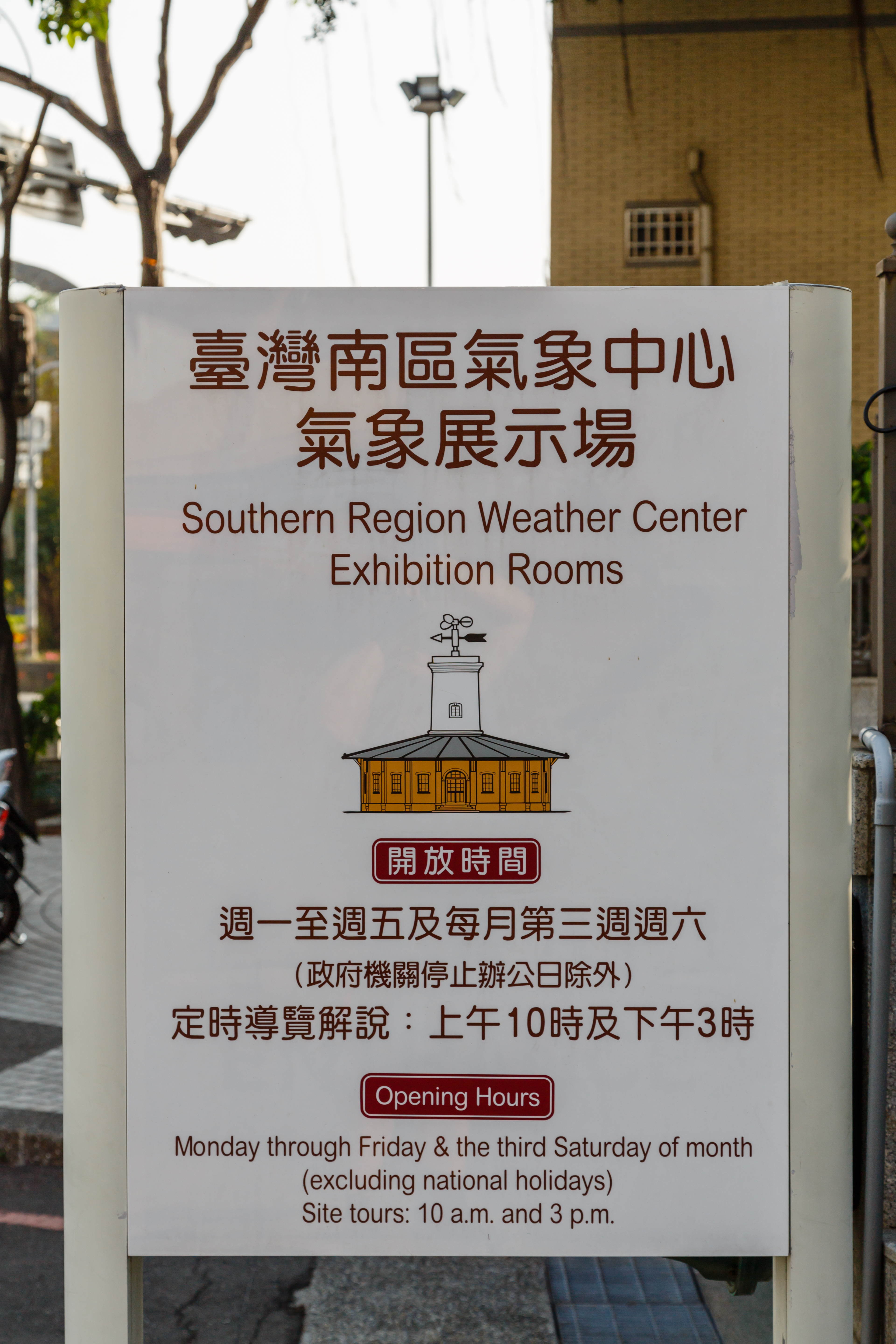 Tainan, Taiwan: Former Meteorological Station